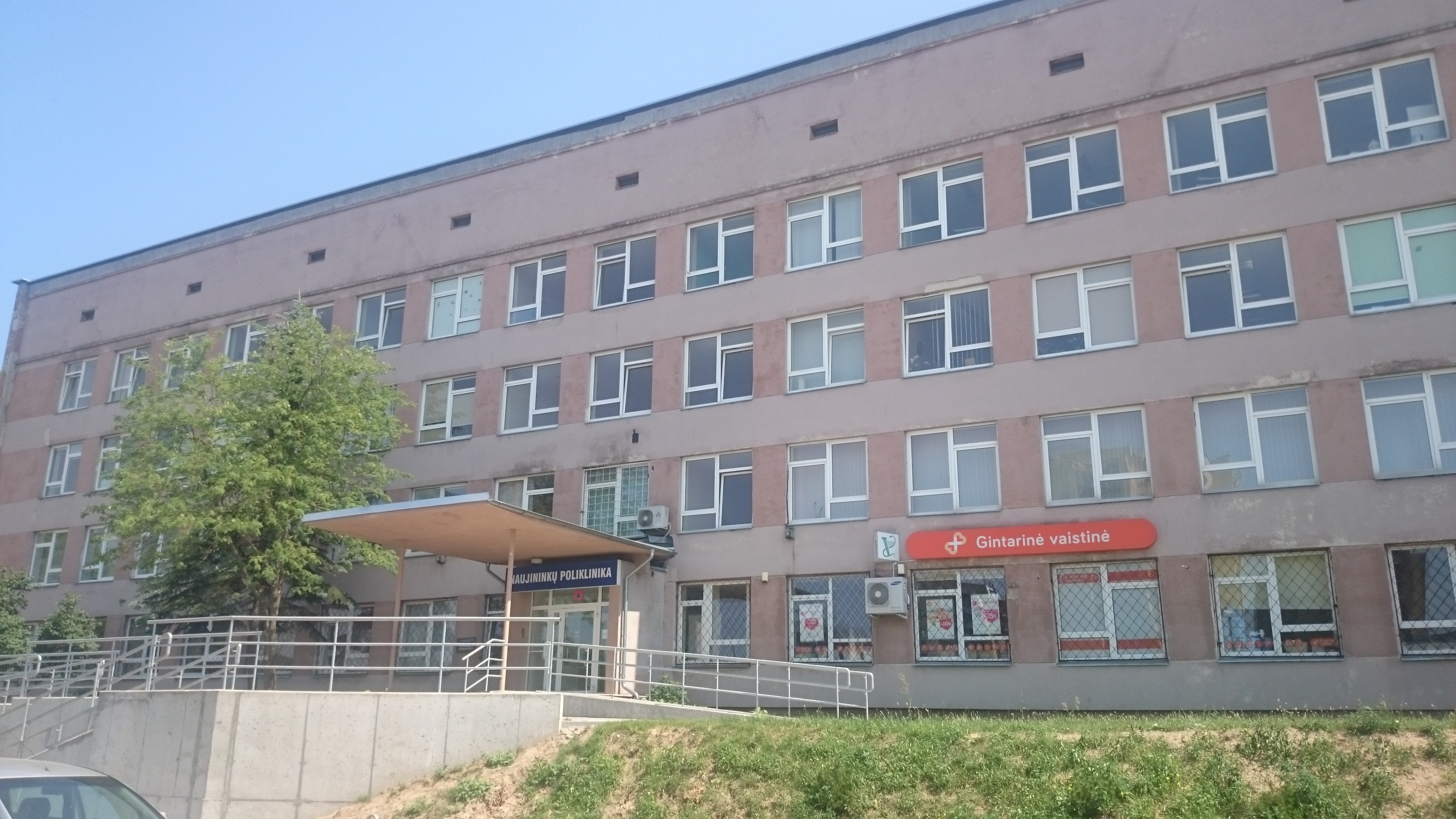 NAUJININKAI